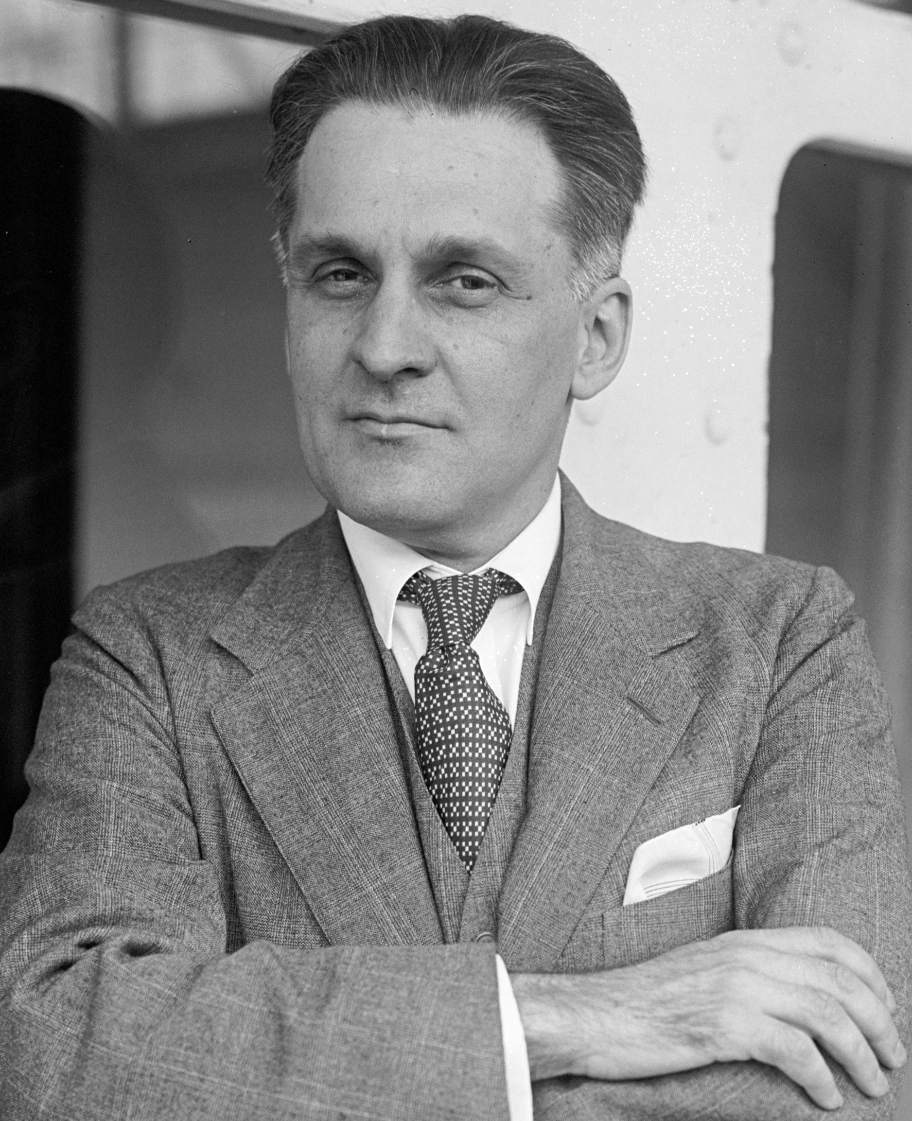 Romanian diplomat and writer Anton Bibescu a.k.a. Antoine Bibesco (1878-1951)